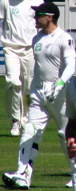 New Zealand wicket-keeper Brendon McCullum, during a test match between New Zealand and Pakistan at the University Oval in Dunedin, New Zealand.